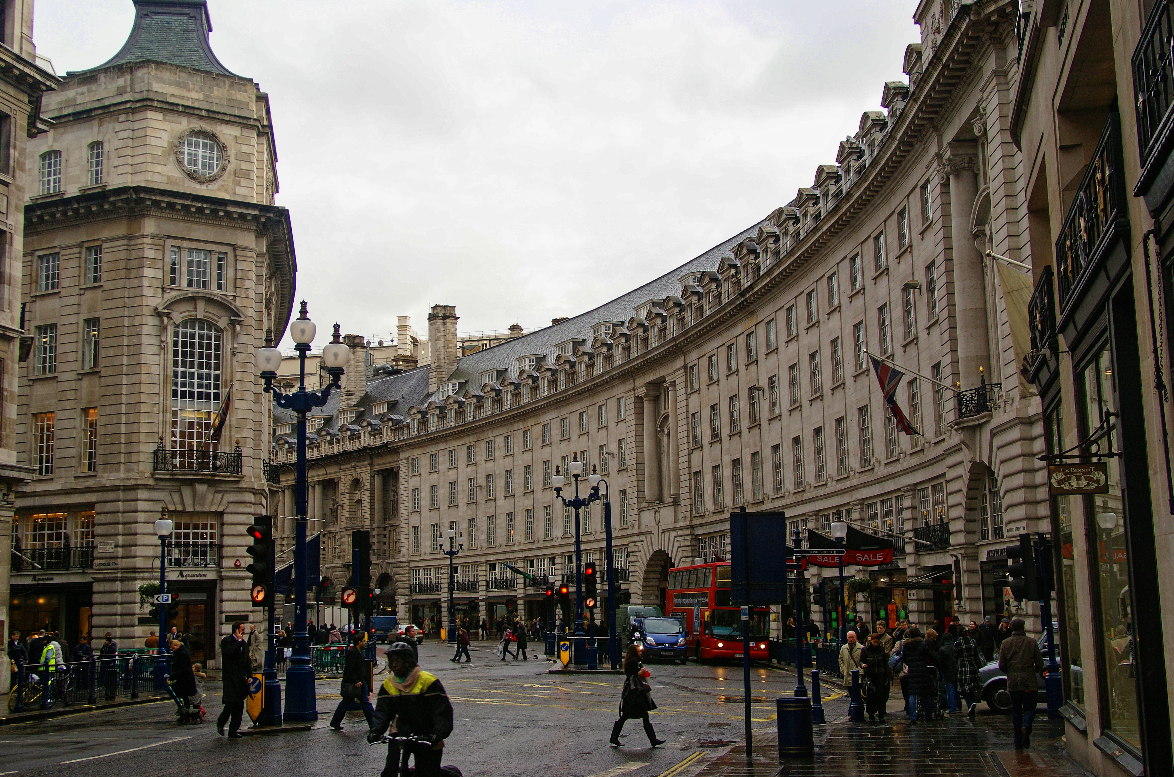 London - Regent Street - The Quadrant 1926 by Sir Reginald Blomfield - View SSE